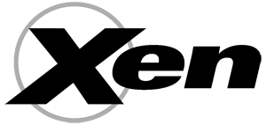 Xen logo